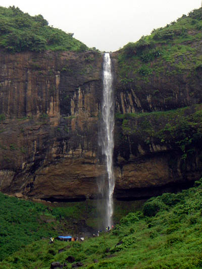 The magnificient waterfalls at Kharghar, Navi Mumbai